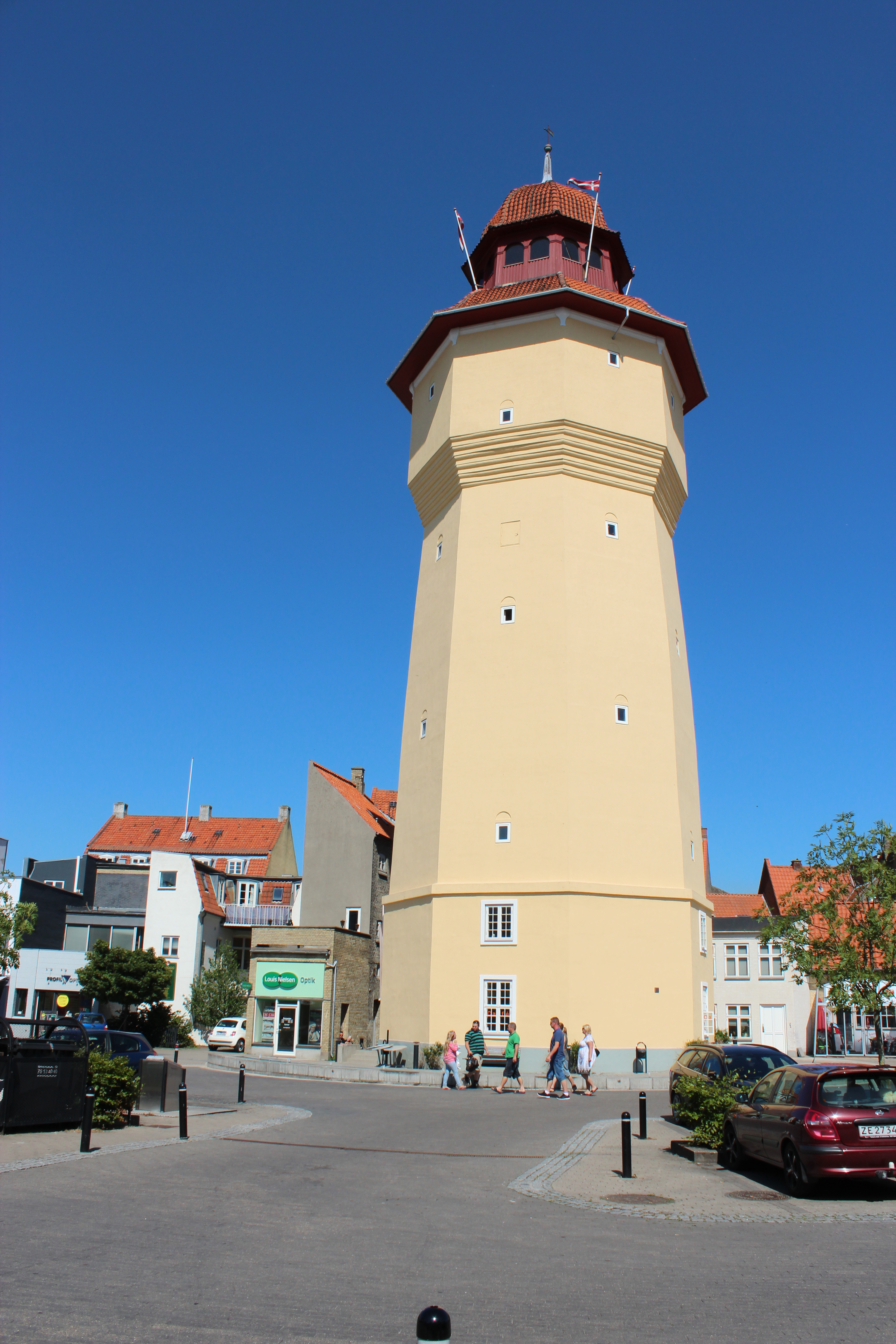 Water tower in Nykøbing Falster